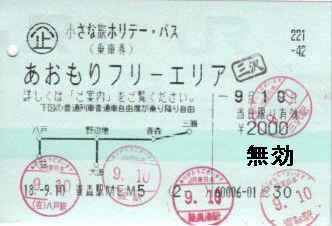 Used Chiisana Tabi Holiday Pass (literally "Small Trip Holiday Pass") ticket for the Aomori area